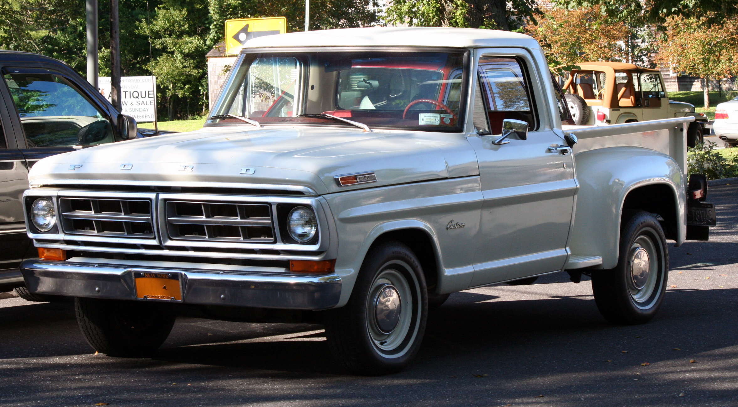 1971 Ford F-100 Flareside Custom pickup seen in Amagansett, NY